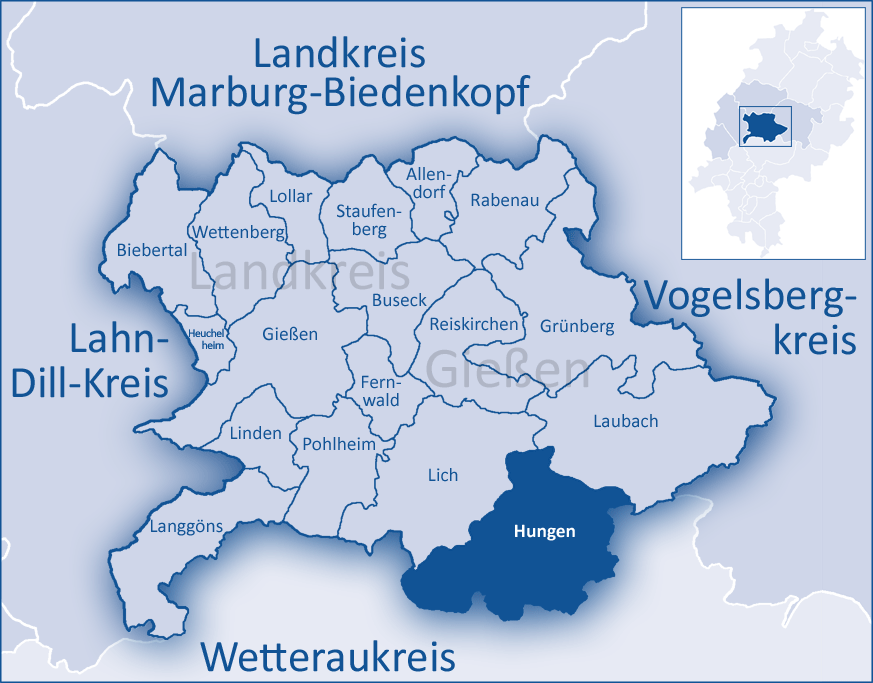 The map shows a district in the area of Gießen (district)